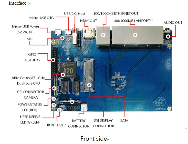 BPI-R1